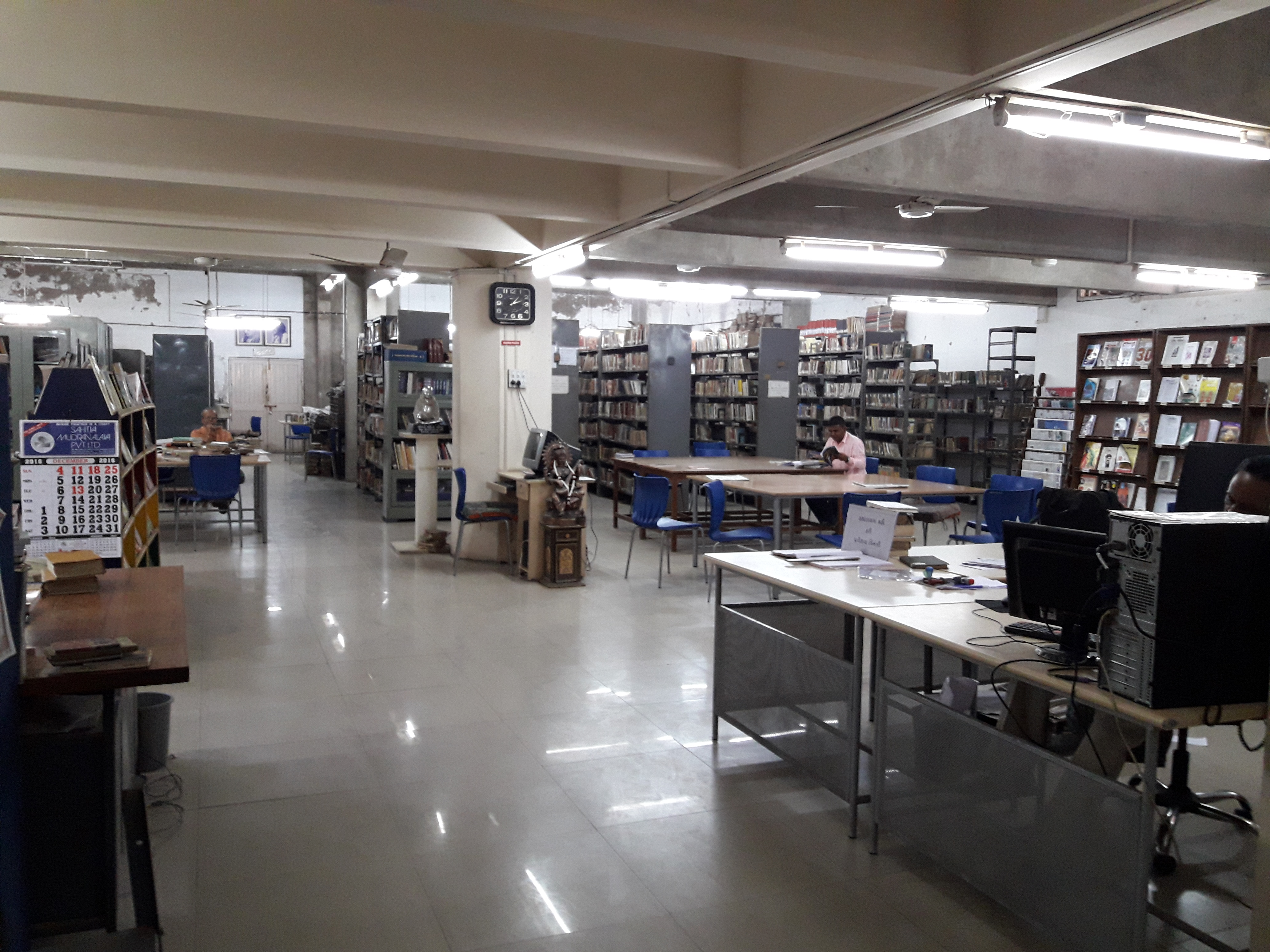 Chimanlal Mangaldas Granthalay library at Gujarati Sahitya Parishad, Ahmedabad, Gujarat